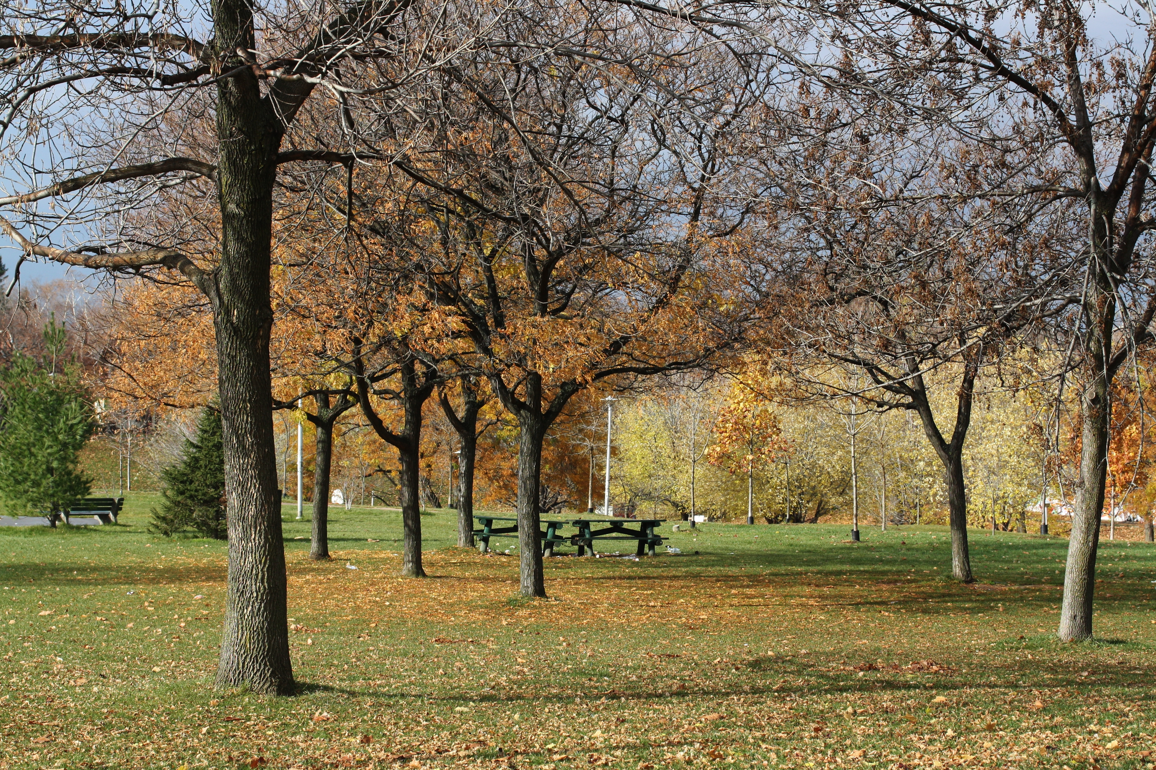 Christie Pits, a park in Toronto, Ontario, Canada.